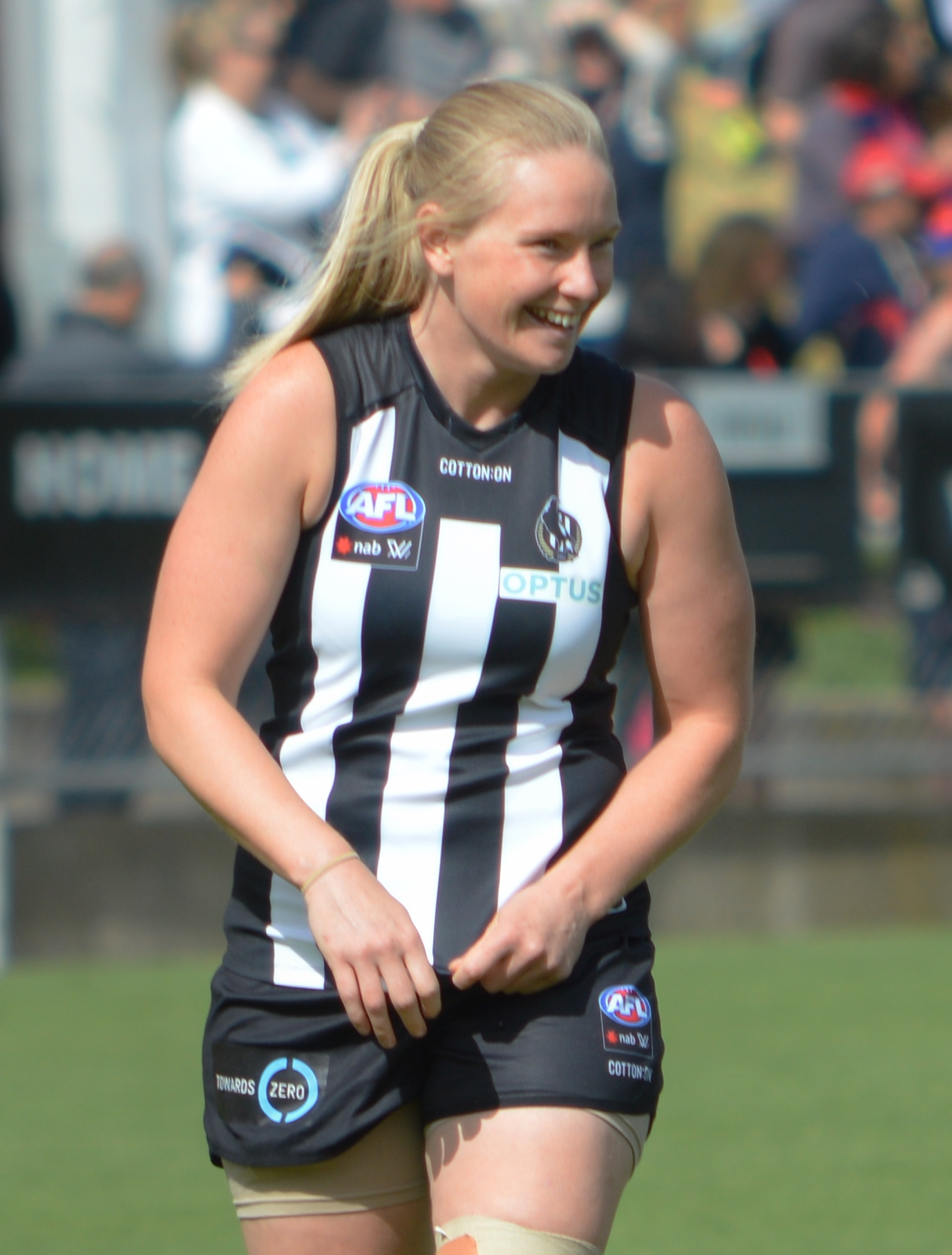 Sarah D'Arcy with Collingwood during a match against Melbourne at Victoria Park in round 2 of the 2019 AFL Women's season.